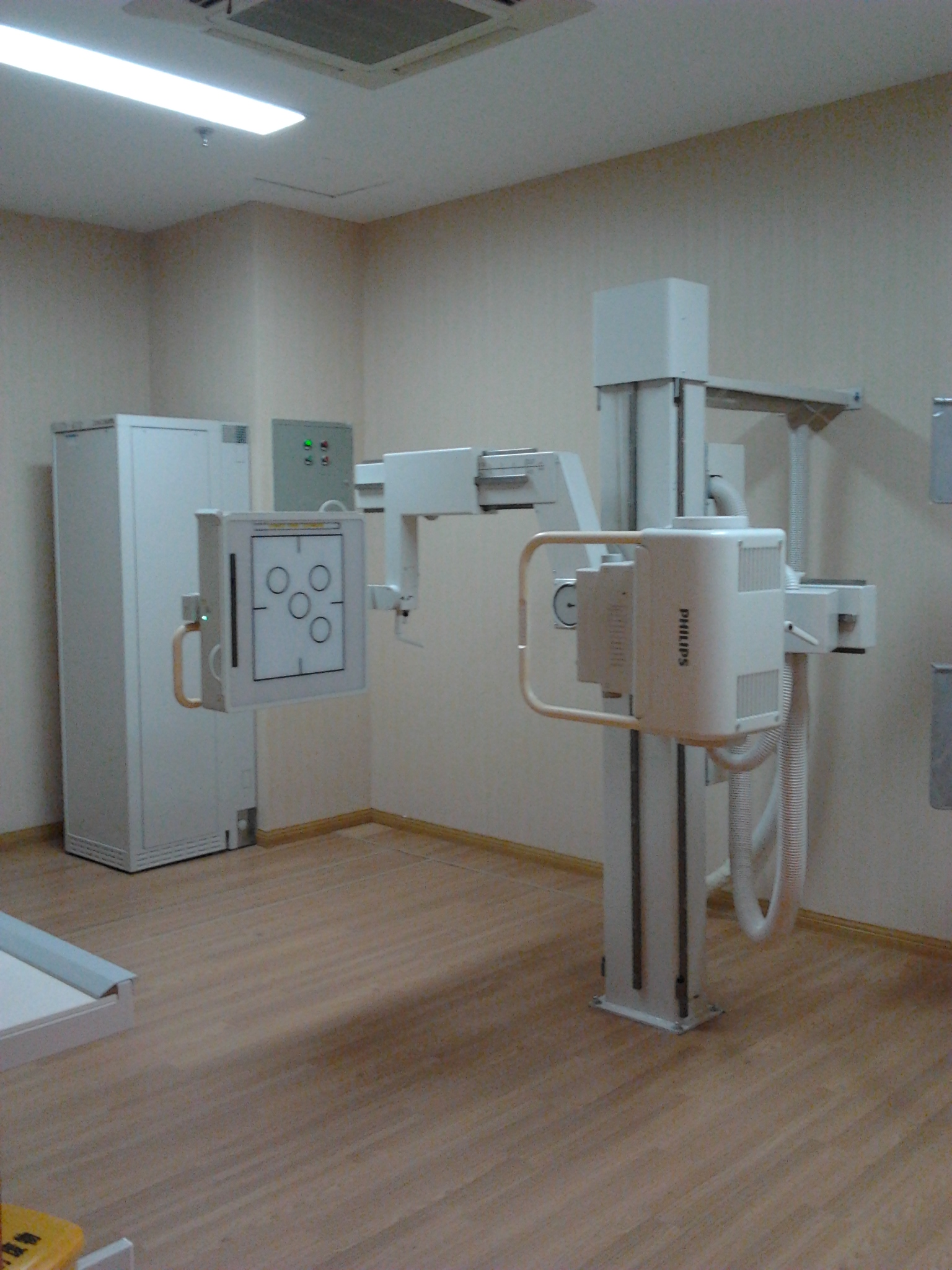 Dedicated digital chest radiography room at a hospital (Philips Medical Systems)